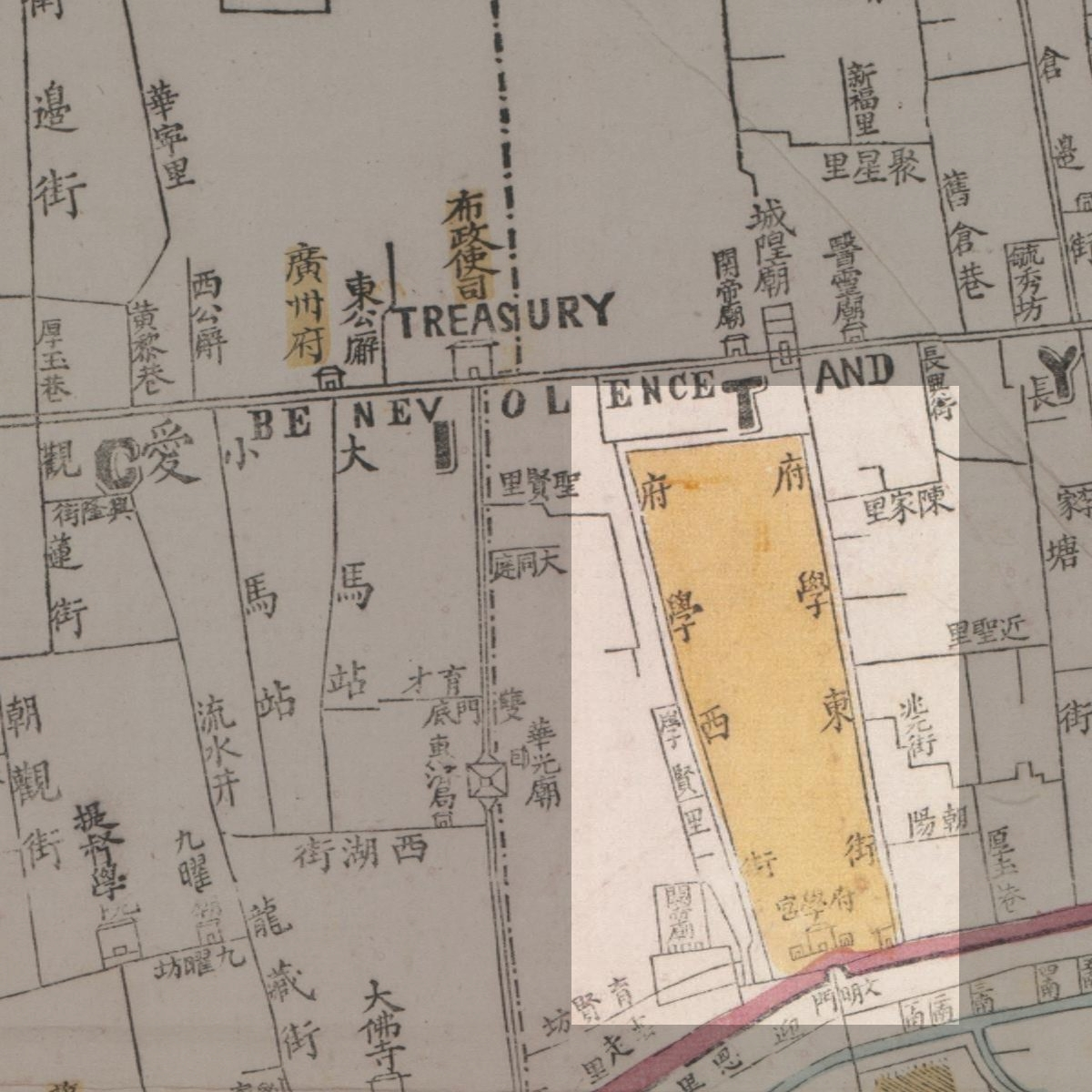 The map of location of Kwang-fu College in Canton City. It is based on a map in public domain named Map of the city and entire suburbs of Canton by D. Vrooman in 1860.